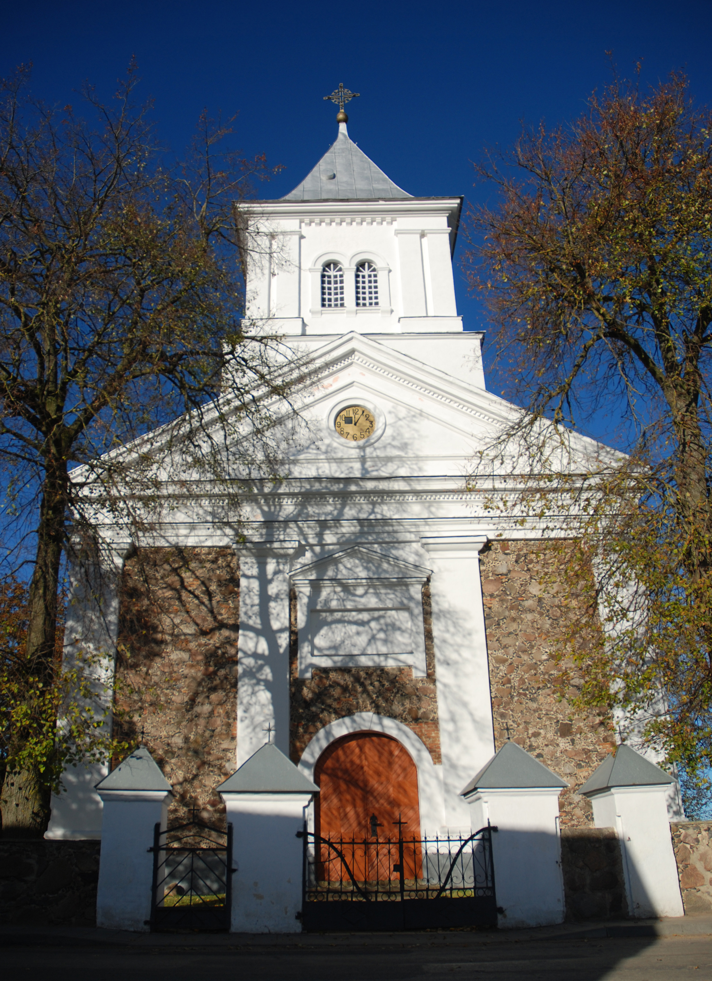 The Church of Saints Peter and Paul the Apostles in Žeimelis